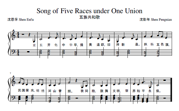 My own work, writing out in Western notation the following image link ( the title of which is "National Anthem Draft". It was found here ( though I'm not sure where the original image came from, as the page does not list its image sources.